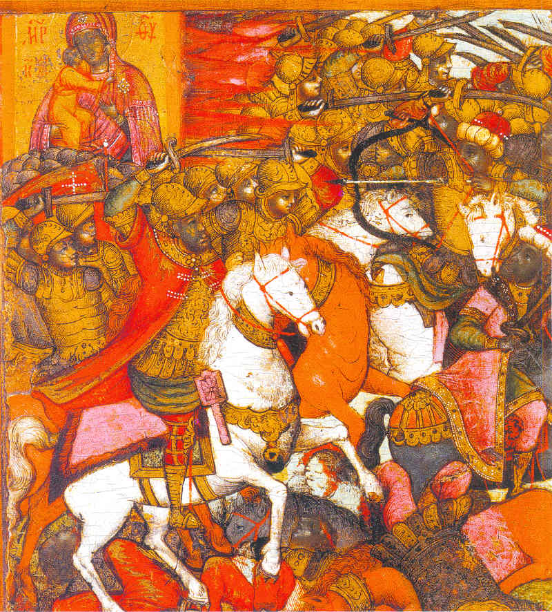 Miracle of Feodorovskaya icon